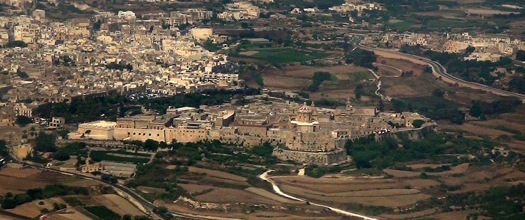 Bird's eye view of Mdina, Malta